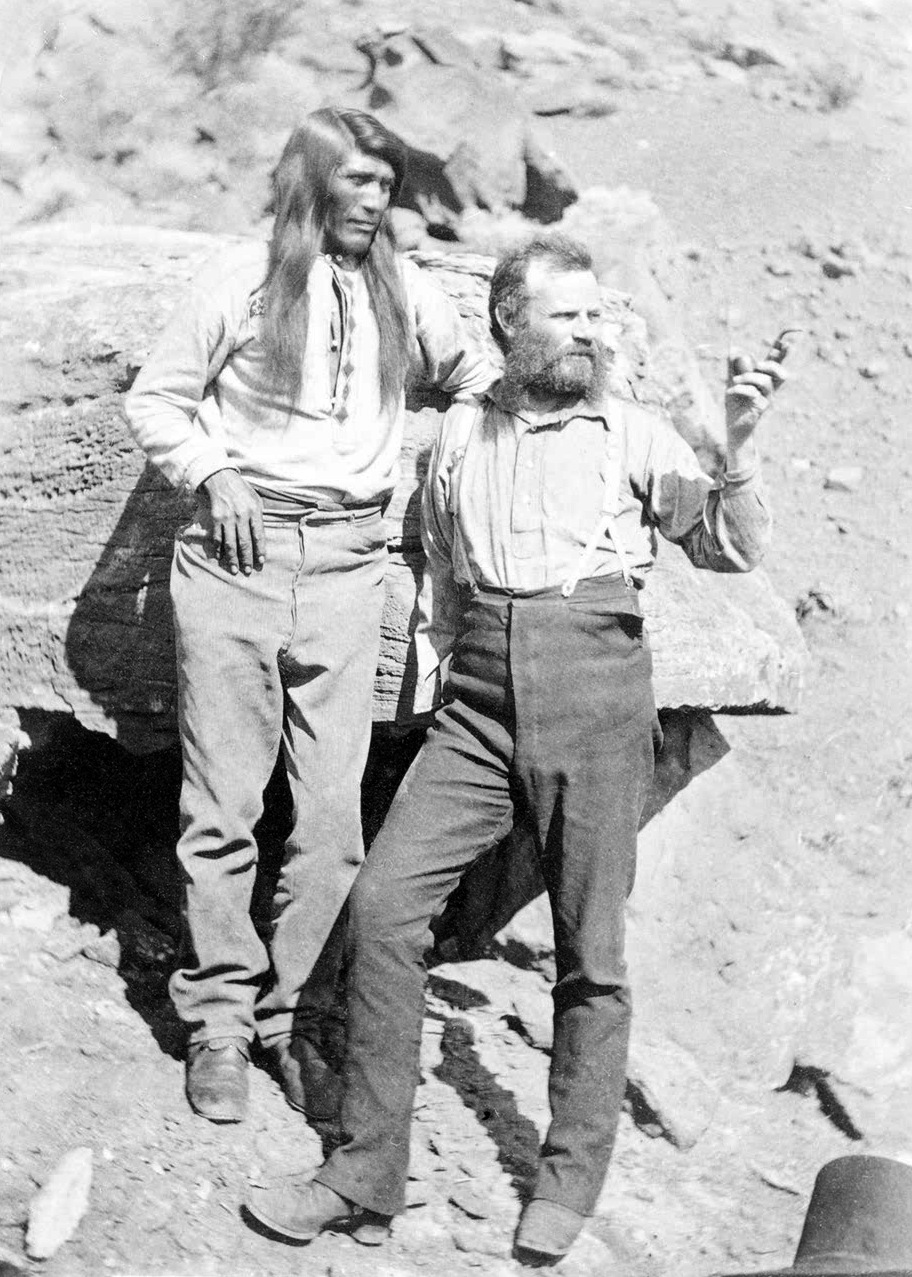 17229 TAU-GU, CHIEF OF THE PAIUTES OVERLOOKING VIRGIN RIVER WITH J.W. POWELL AGE 39. GRCA 13806. CIRCA 187 Photograph with Tau-gu, presumably by explorer Frederick Samuel Dellenbaugh, a member of John Wesley Powell's second Colorado River expedition.